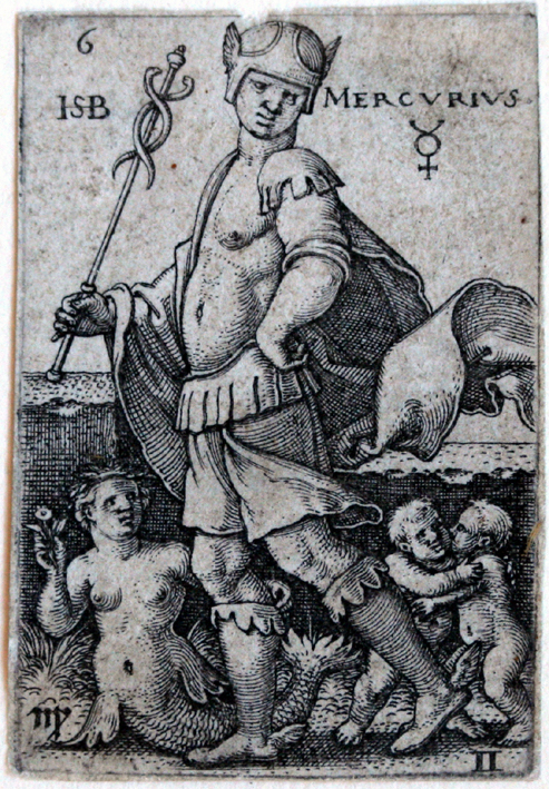 Beham, (Hans) Sebald (1500-1550): Mercury, from The Seven Planets with the Signs of the Zodiac, 1539 (Bartsch 119; Pauli, Holl. 121), first state of three, trimmed to the platemark, occasional skinning verso, with associated tiny paper losses at the upper sheet edge, otherwise generally in very good condition.